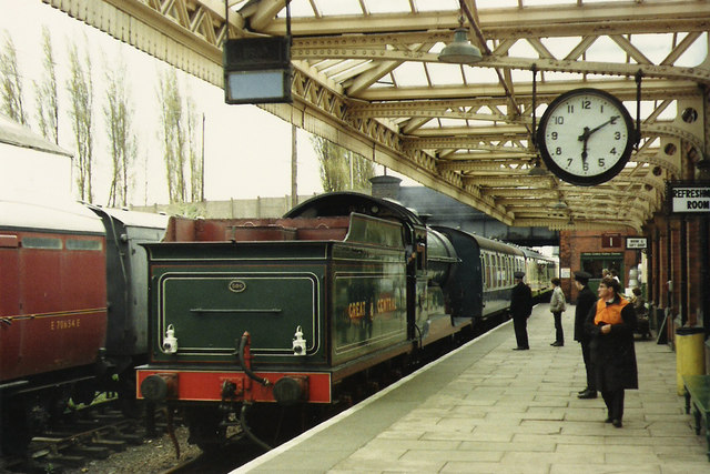 Arrival from Leicester (North) Former Great Central Railway locomotive, 'Butler Henderson' arrives at Loughborough station.